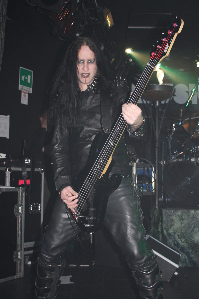 Dave Pybus of Cradle of Filth